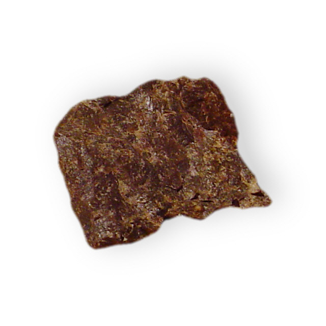 These mineral images are free to use how you wish.